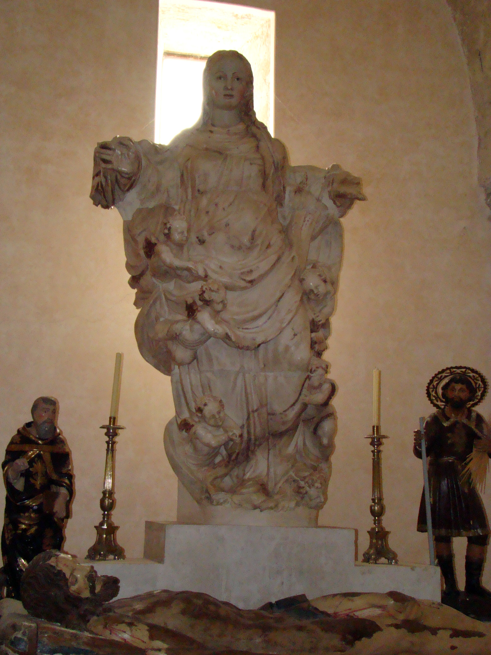 Assumption of Mary made of alabaster from the old altarpiece of the Santa Espina located in the church of San Cebrián de Mazote (Valladolid). A very special composition of barroque trace. Work by Inocencio Berruguete.